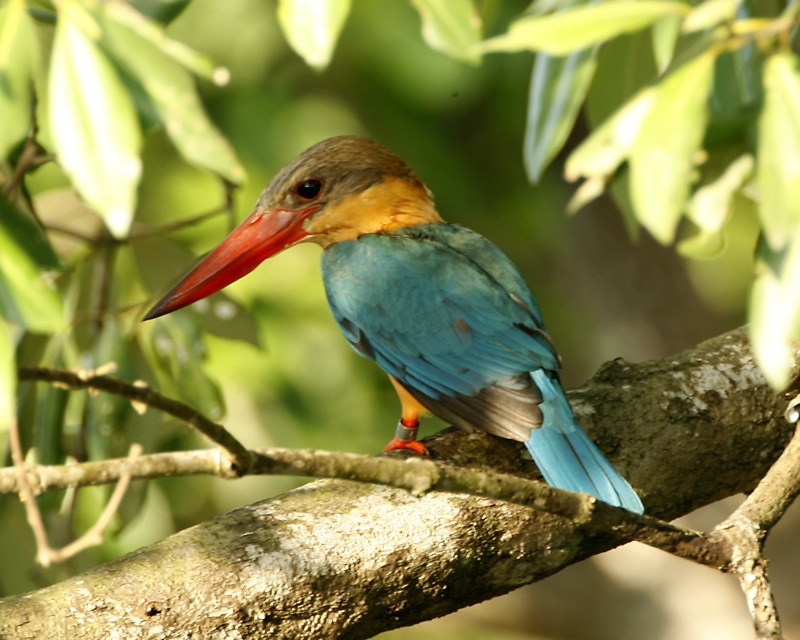 Stork-billed Kingfisher Pelargopsis capensis aka Latin: Halcyon capensis Location: Sungei Buloh Wetland Reserve, Singapore Strangely, despite properly placing the picture in Singapore territory the Flickr map facility insists on labeling the photo as being taken in Johor, Malaysia March 2, 2006 Subject in the picture is a free bird but there appears to be a metal band on the left indicating that it may be an escapee Alt. names: Brown-headed Stork-billed Kingfish, Brown-headed Stork-billed Kingfisher, Brown-headed Stork-billed-Kingfisher Indonesian: Pekaka emas, Raja udang paruh bango